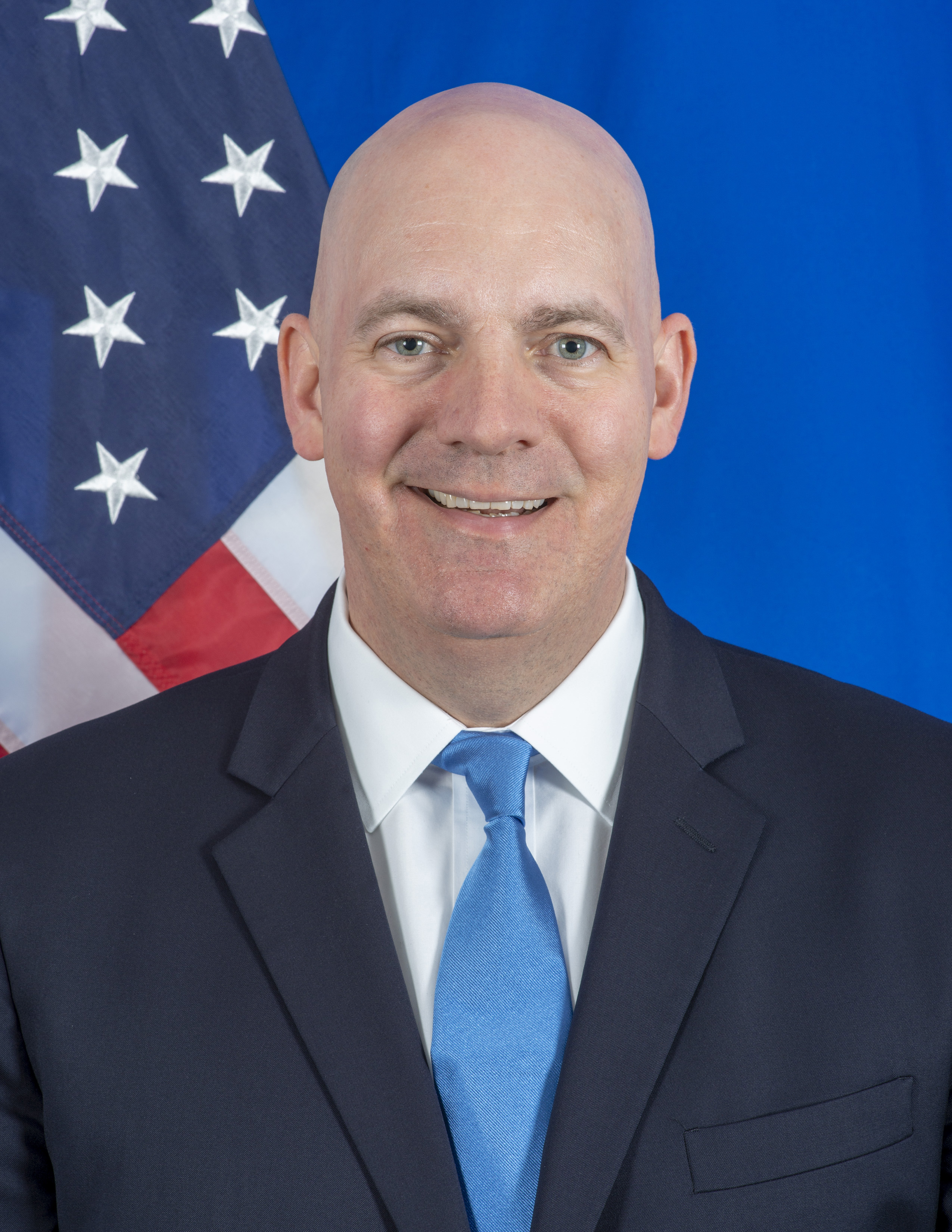 R. Clarke Cooper, Assistant Secretary for Political-Military Affairs Depicted person: R. Clarke Cooper – American political figure